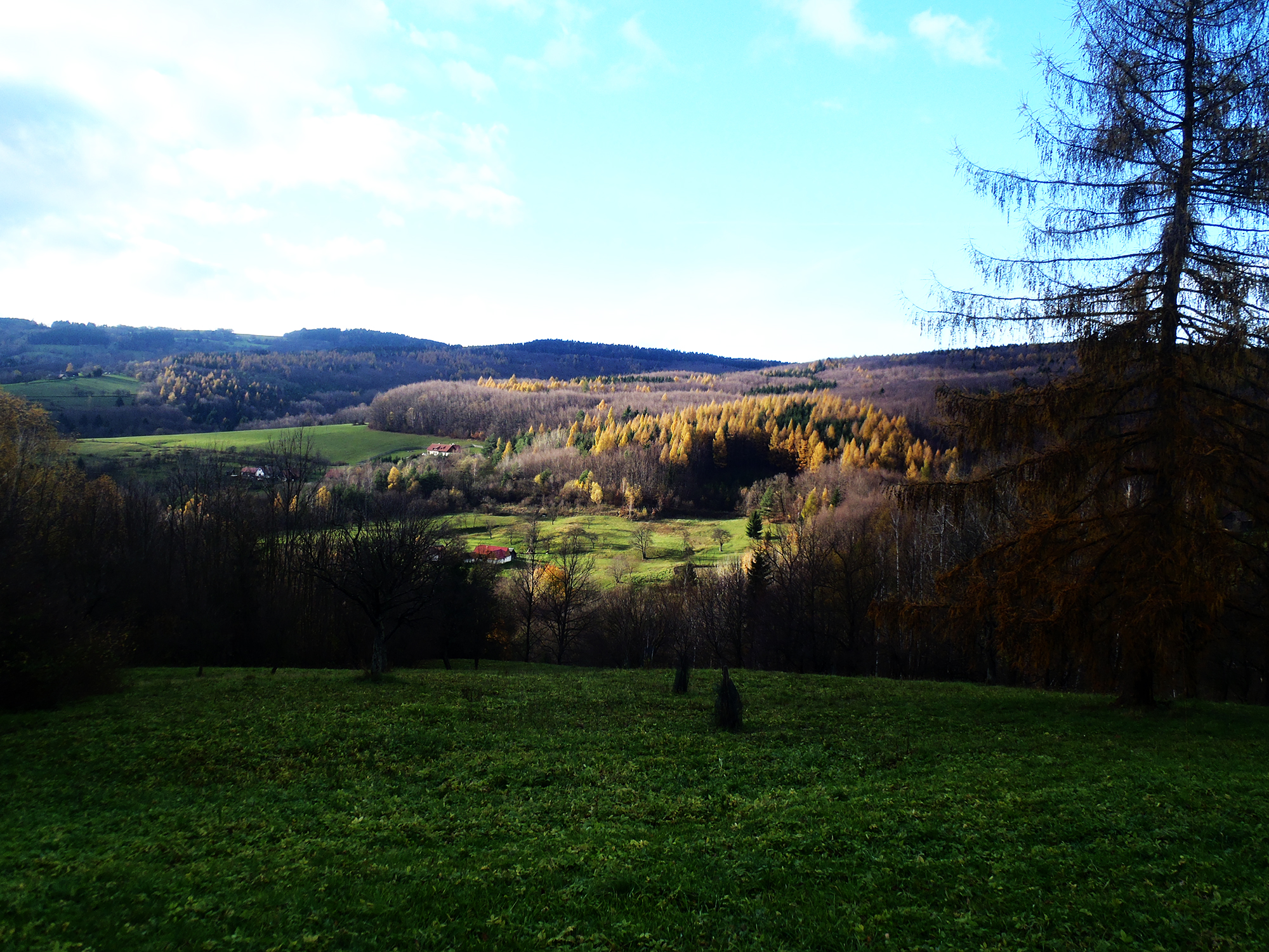 Nature reserve Hutě in Uherské Hradiště District, Czech Republic.